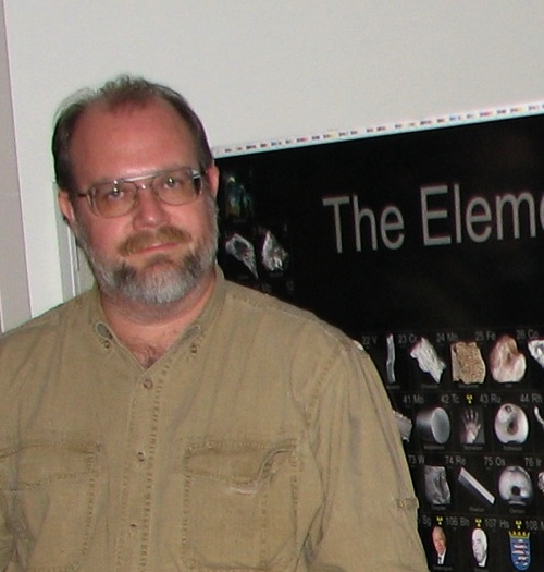 Theodore Gray in his office. Photo by Kathryn Cramer.